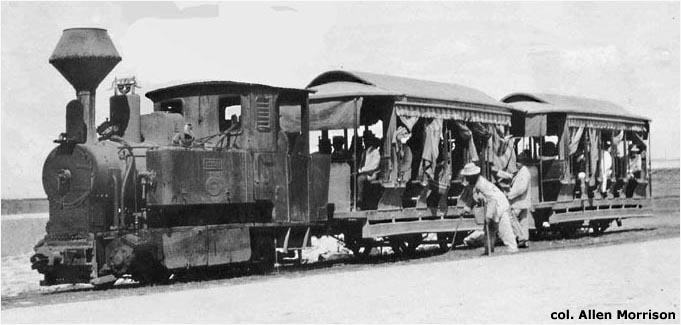 Narrow gauge steam locomotive train